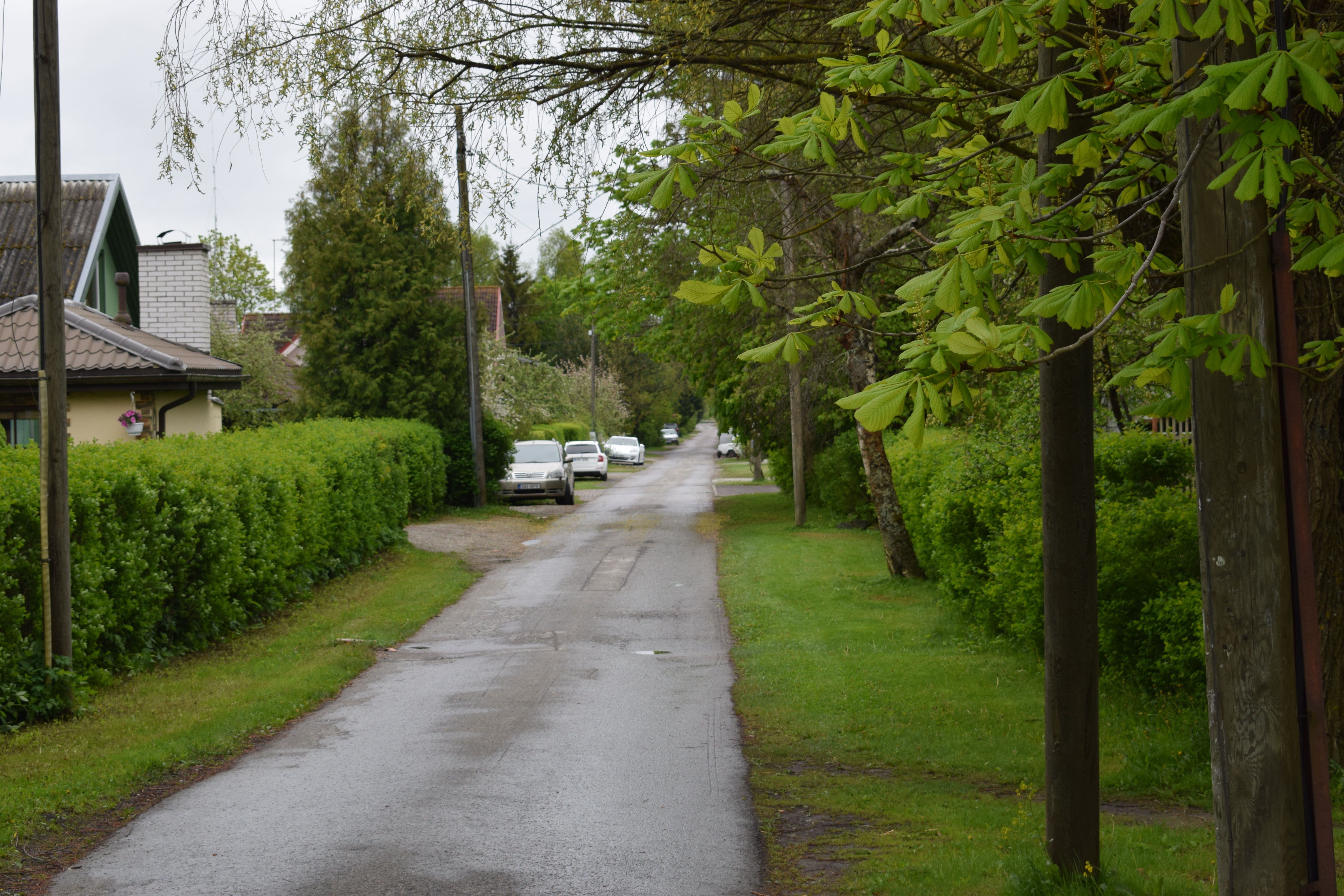 Kressi tee